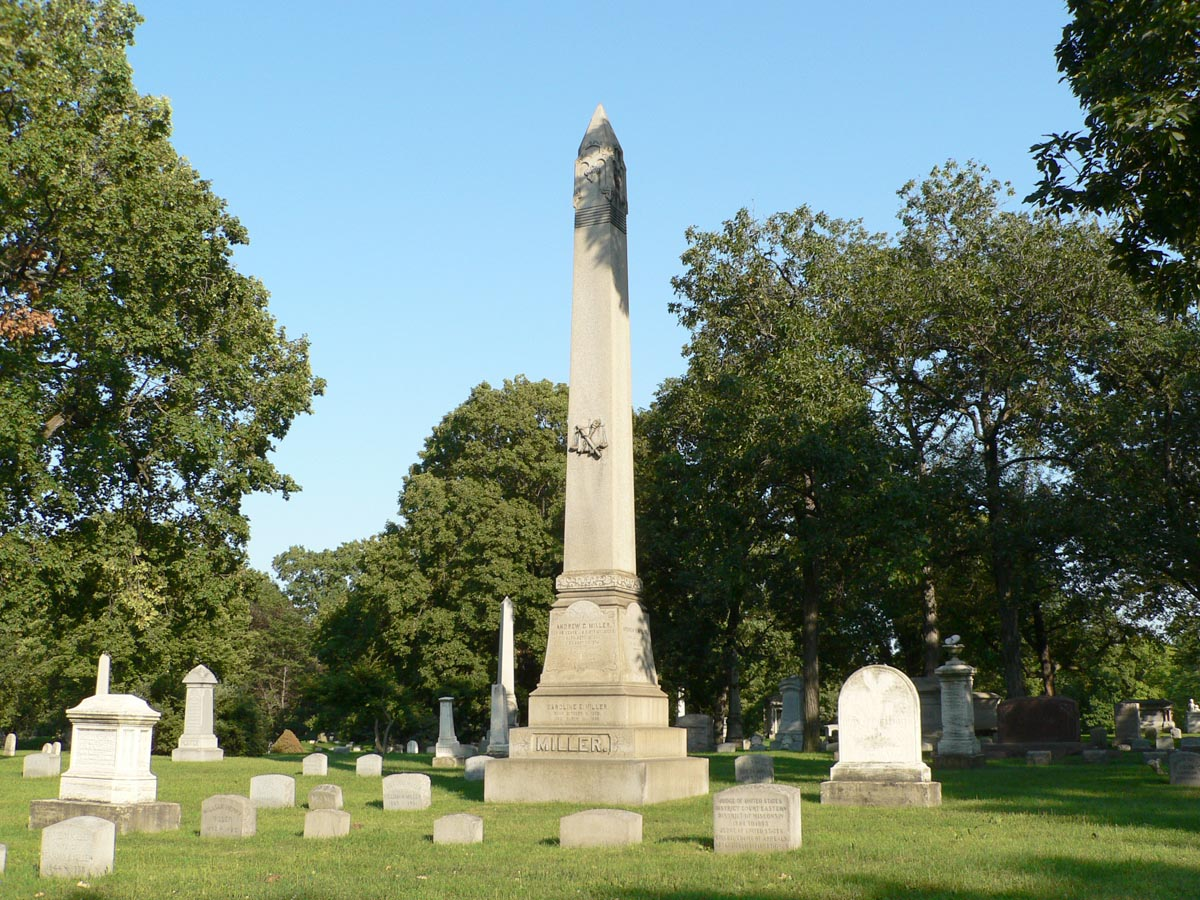 Copyright © 2006 Sulfur Gravesite monument for Wisconsin Supreme Court justice Andrew Miller, located on the grounds of Forest Home Cemetery in Milwaukee, Wisconsin.